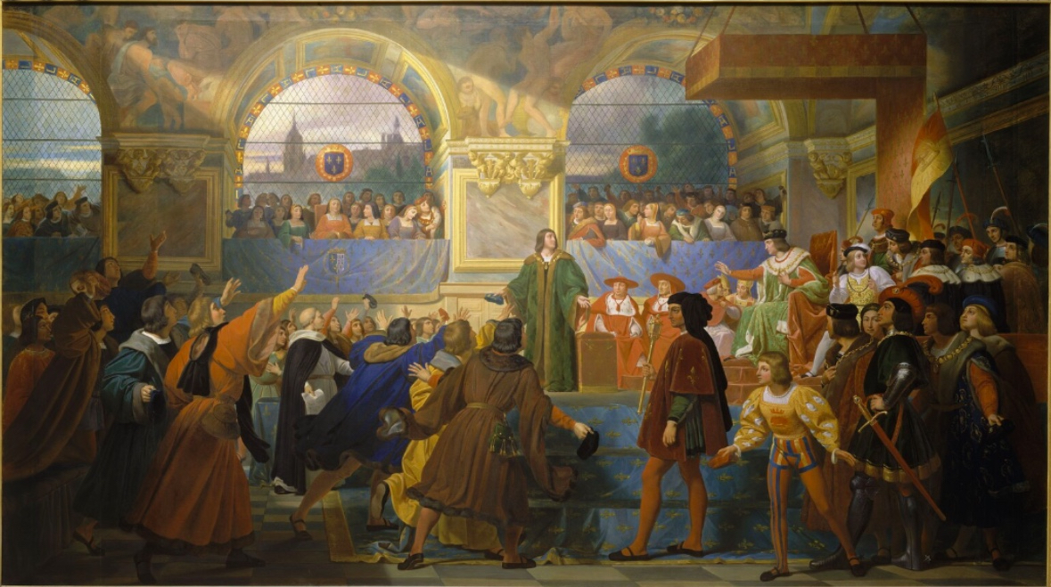 King Louis XII of France declared as "Father of the people" by the French States-General of Tours in 1506